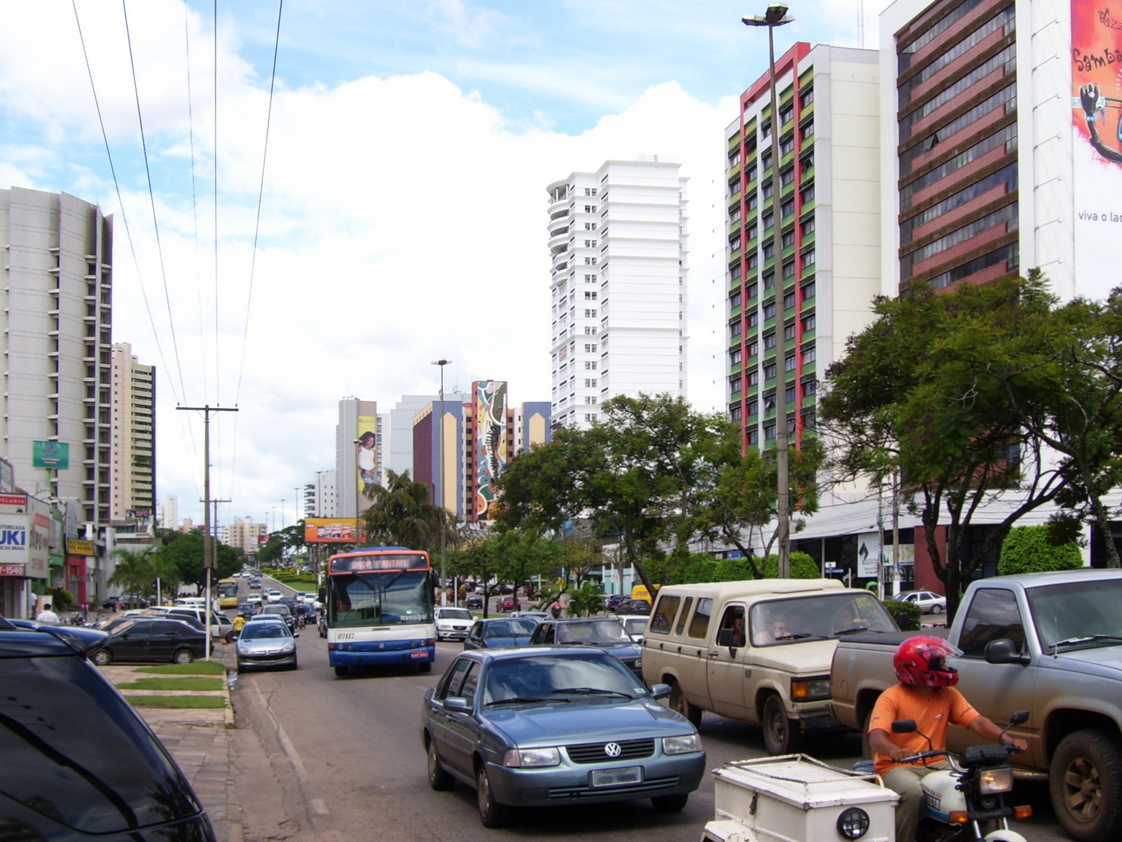 "Historiador Rubens de Mendonça" Avenue (or CPA Avenue, as a reference to the Political and Administrative Centre, there situated), Cuiabá, Mato Grosso, Brazil.